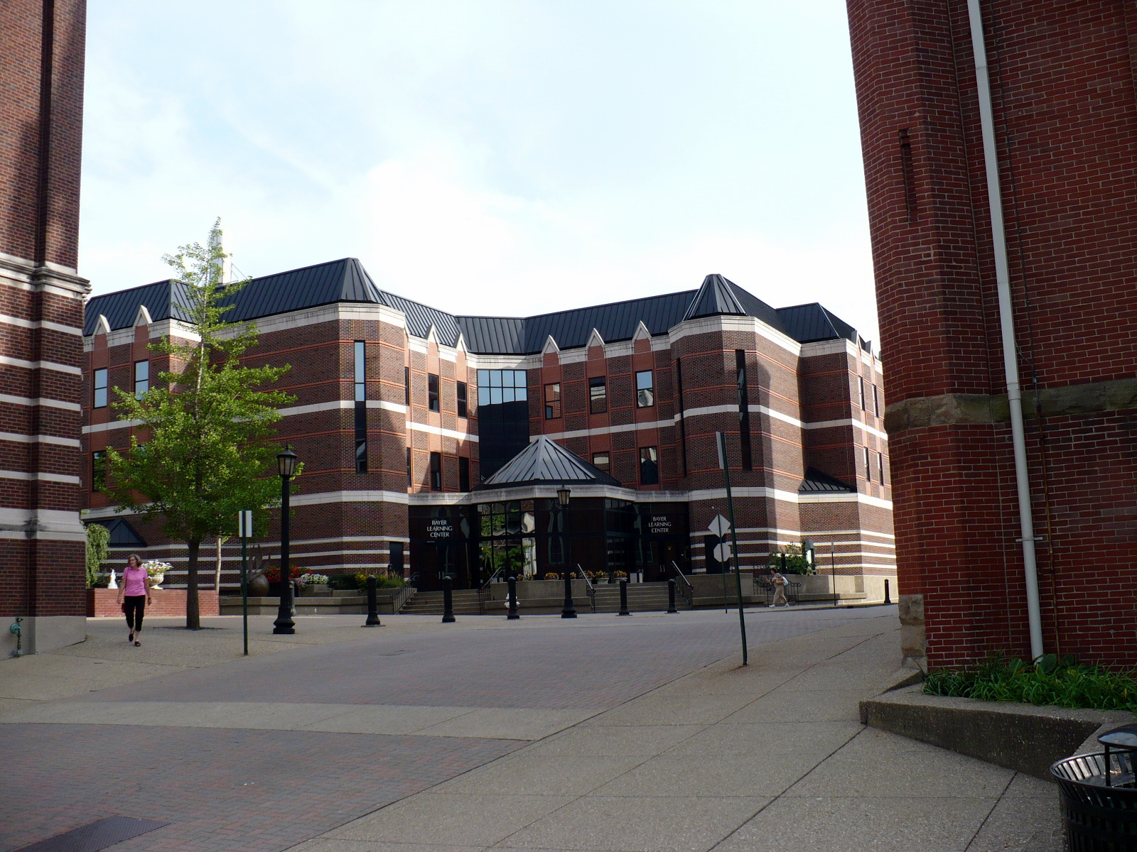 The Bayer Learning Center at Duquesne University.